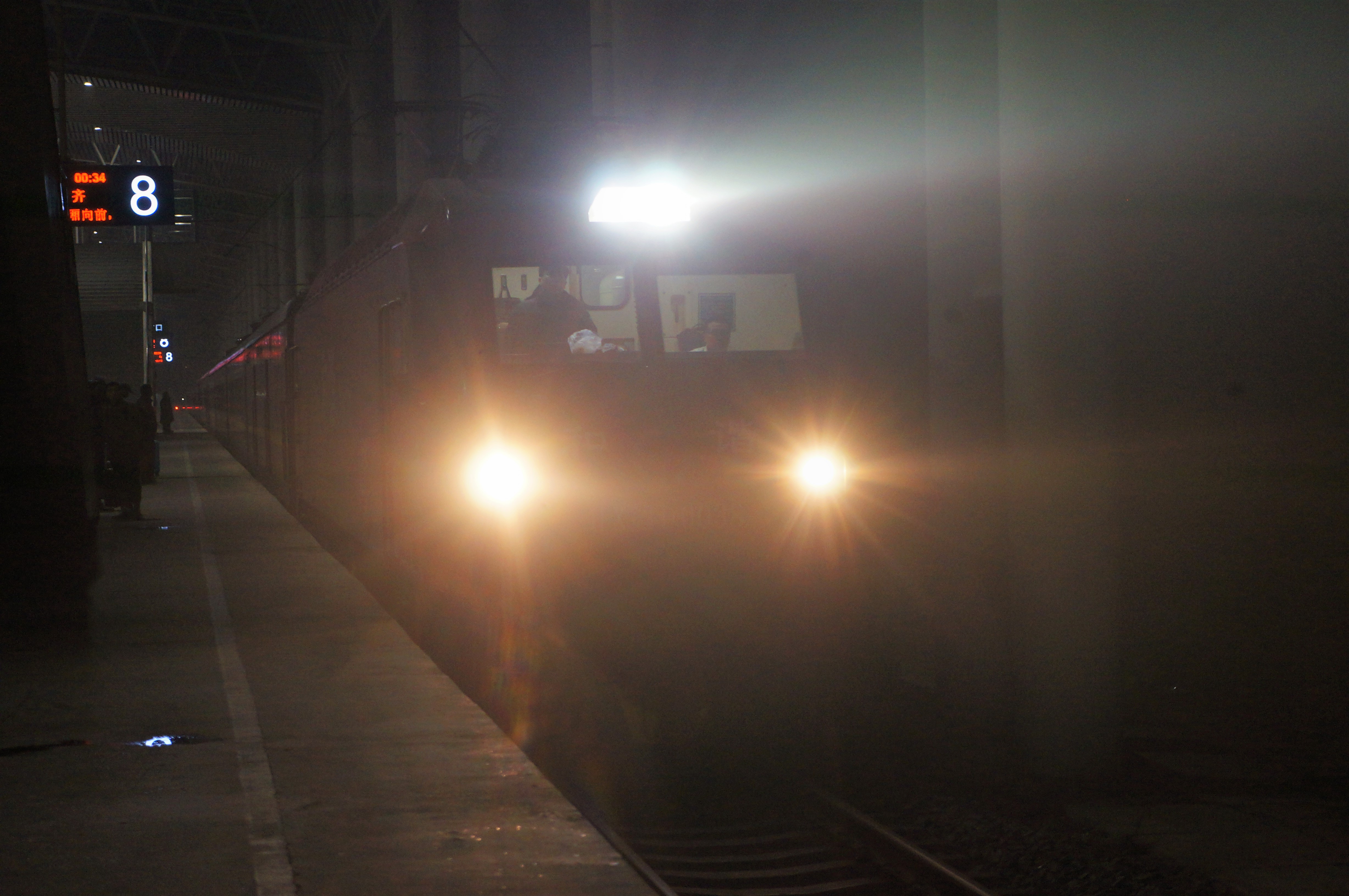 201812 HXD3D-0038 hauls Z40 from Shanghai to Urumqi enters into Bengbu Station